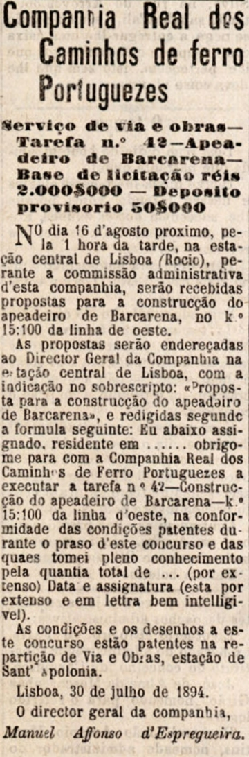 Public announcement of Companhia Real dos Caminhos de Ferro Portugueses (Royal Company of Portuguese Railways), about the opening of the bids for the construction of the Barcarena Halt. This image was published on the Diario Illustrado newspaper No. 7667, of 31st July 1894, and scanned by the Biblioteca Nacional de Portugal.